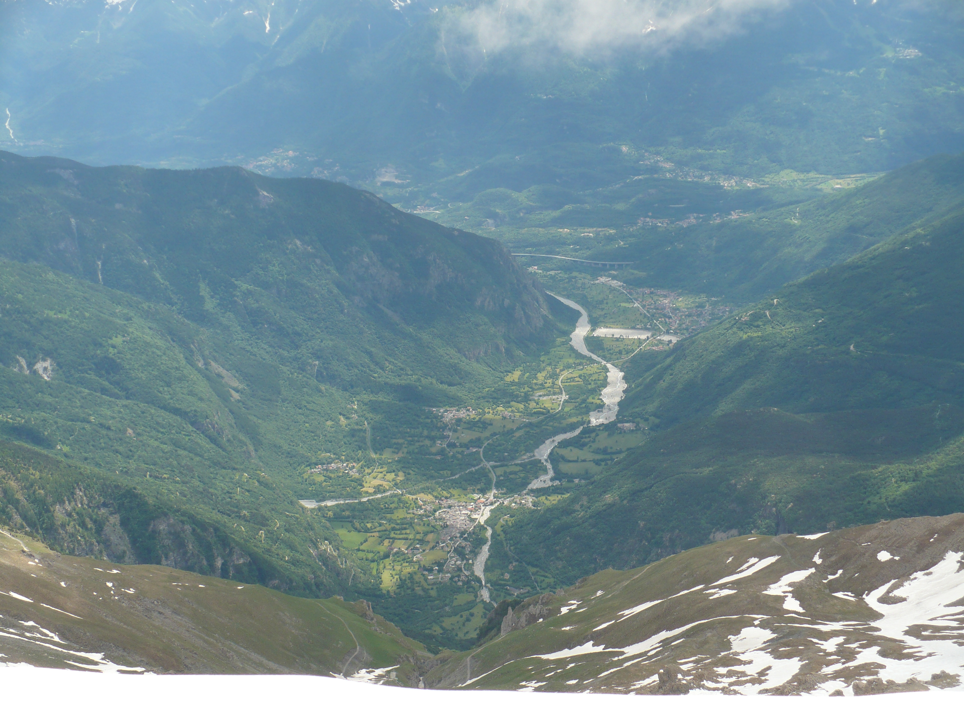 Cenischia valley - Province of Turin - Piedmont - Italy